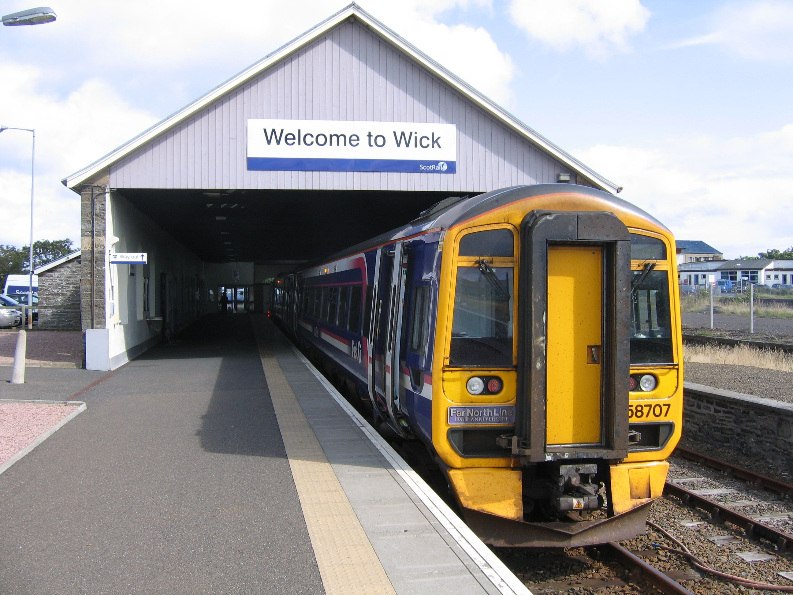 Station of Wick